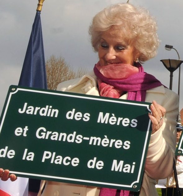 Estela de Carloto en la Inauguración del Jardín de las Madres y las Abuelas de Plaza de Mayo en París. Fragmento de la foto original con la presidenta de la Argentina Cristina Fernández de Kirchner y el alcalde de París.